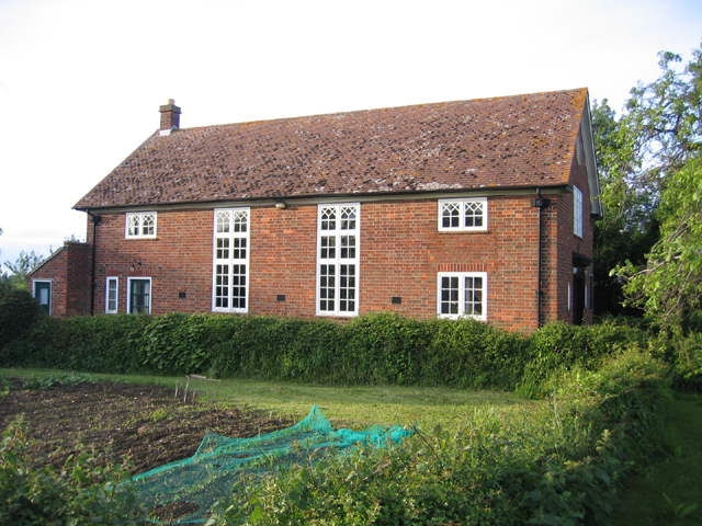 Ebenezer Strict Baptist Chapel, Haynes, Beds. on Silver End Road, rebuilt in 1934.